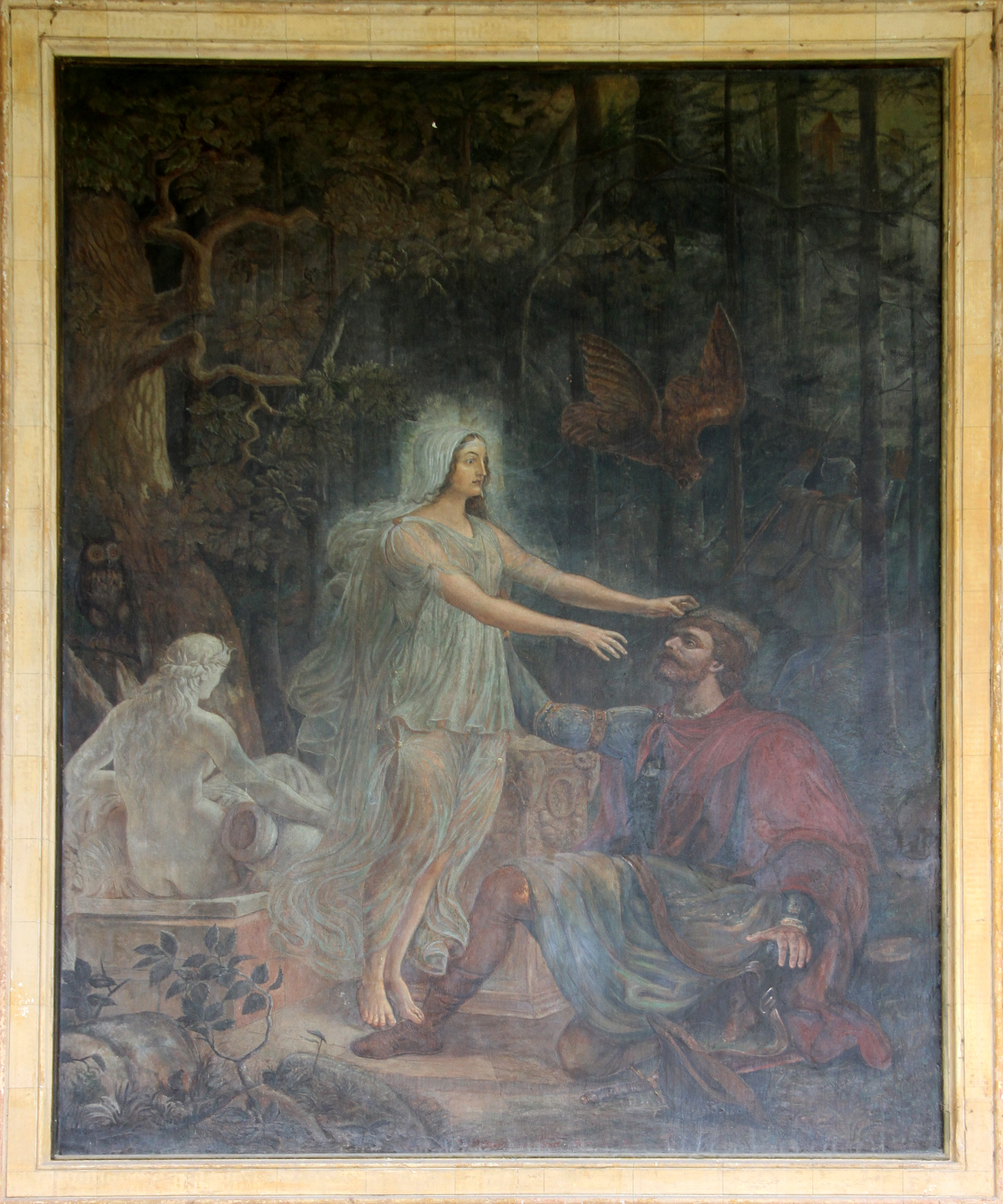 Fresco from the Trinkhalle Baden-Baden.